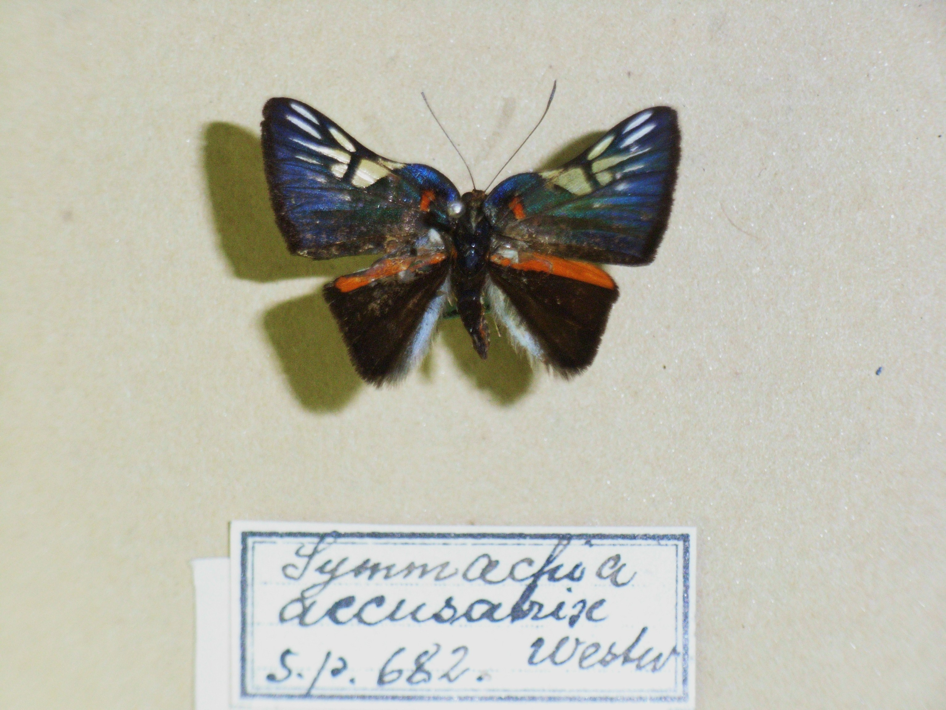 Symmachia accusatrix Westwood, 1851 Riodinidae Ex coll. Museum Wiesbaden